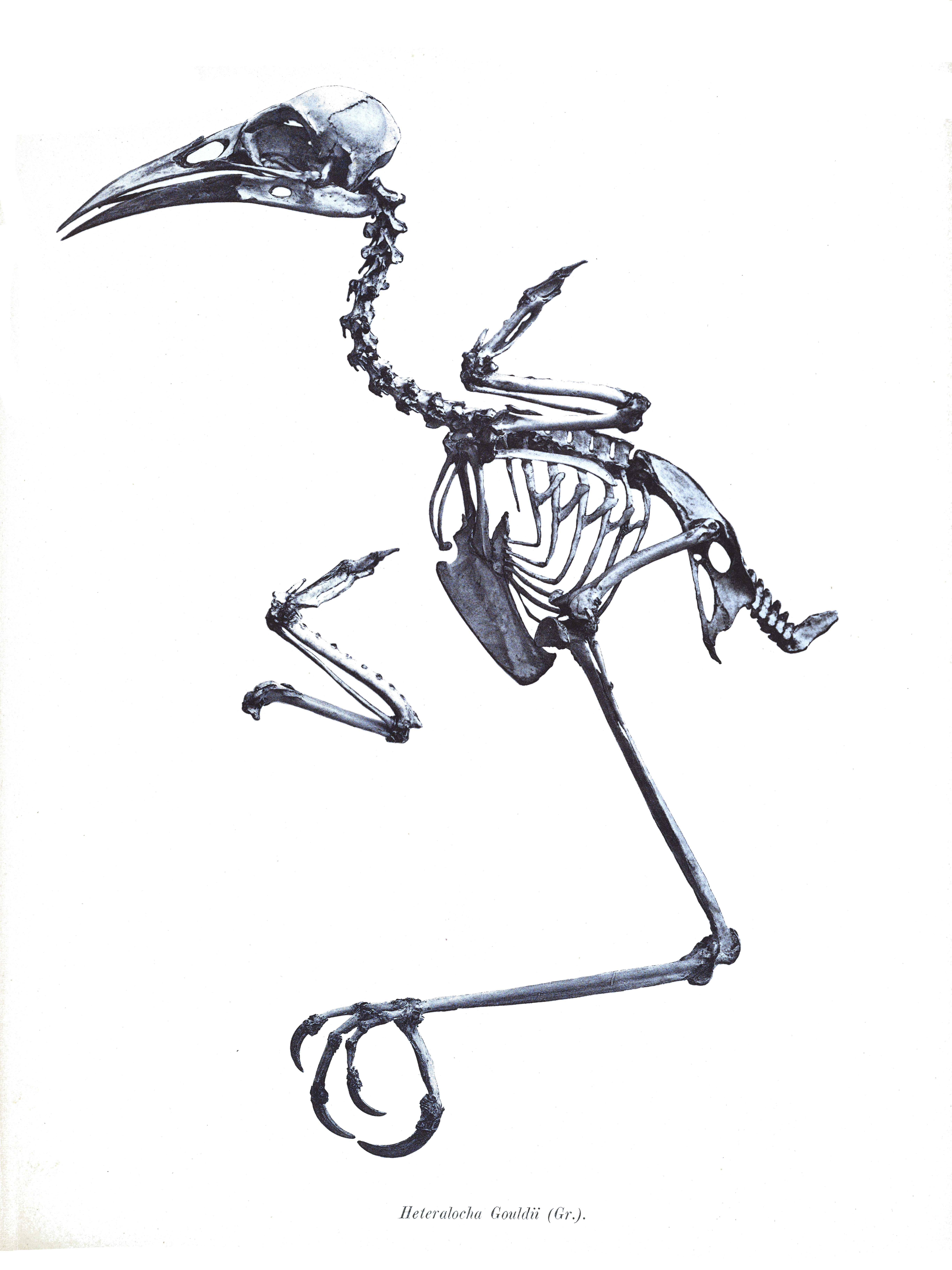 Heteralocha gouldii